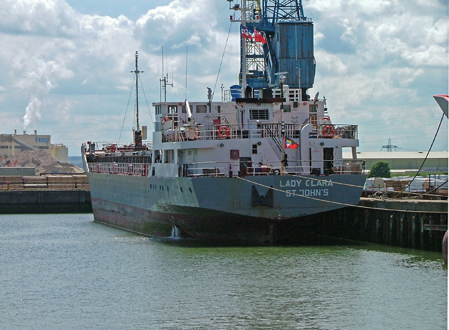 LADY CLARA in Ridham Dock The small tidal dock on the River Swale.